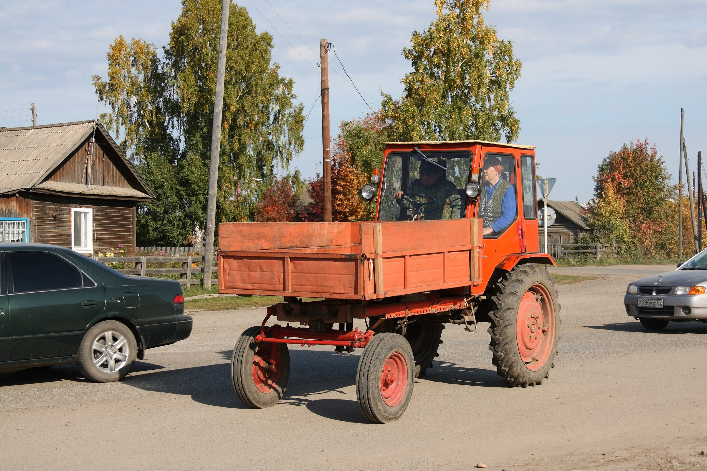 T-16 tractor in Molchanovo, Tomsk oblast, Russia